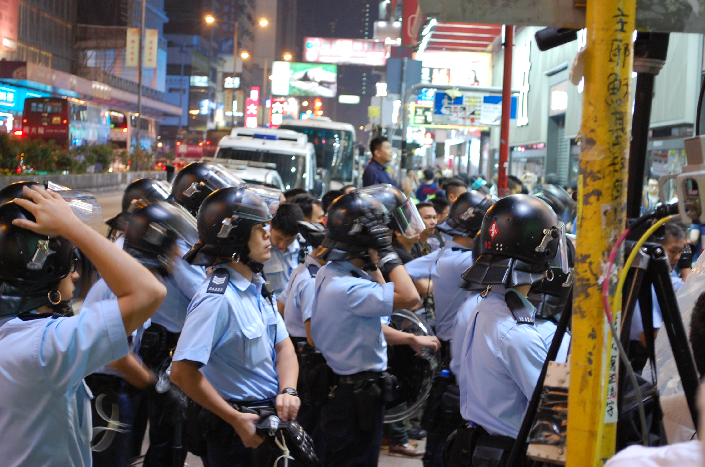 Umbrella Movement protests, Mong Kok, Hong Kong the evening of 26 November 2014. Police officers don their helmets before forming a cordon blocking access to Nathan Road from the east.